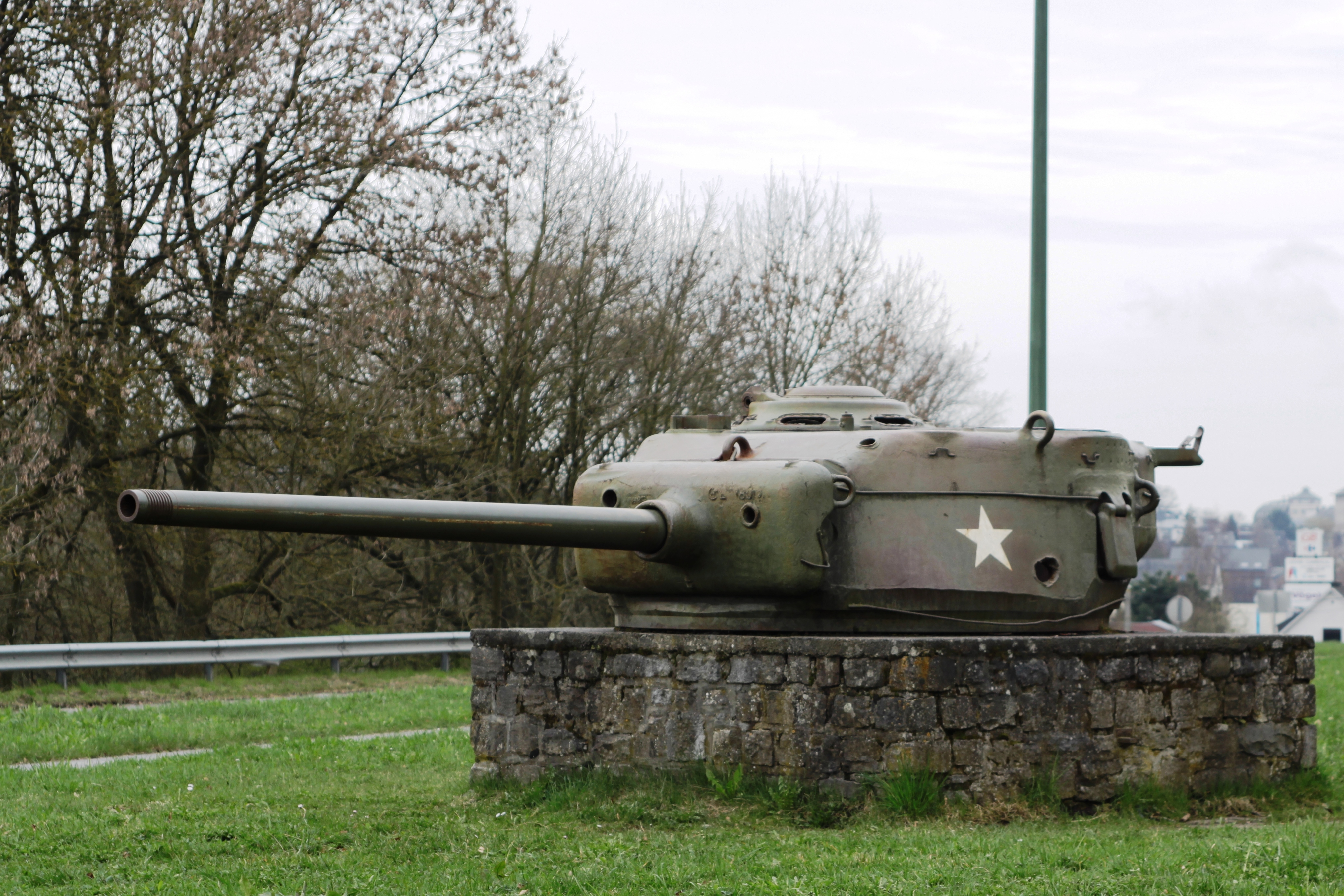 Turrets of Sherman Tanks defining the perimeter of the siege of Bastogne: N15 road to Neufchateau, N4 road to Marche, N34 road to Houffalize, N874 road to Longvilly, N84 road to Wiltz, N4 road to Martelange. This one is on the N874. The left flank of the turret is penetrated by an 75 mm or 88 mm hit.